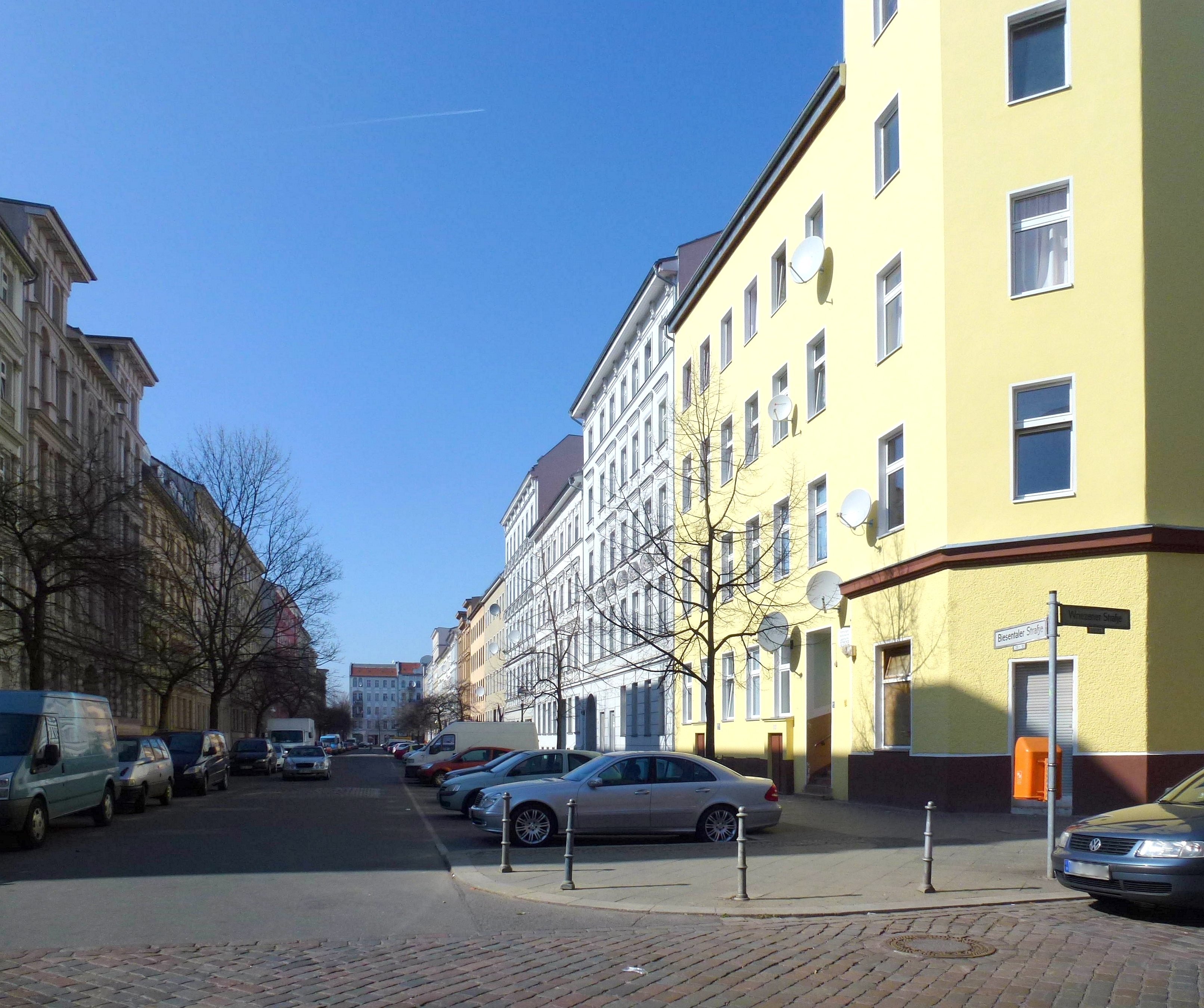 Berlin-Gesundbrunnen Biesentaler Straße